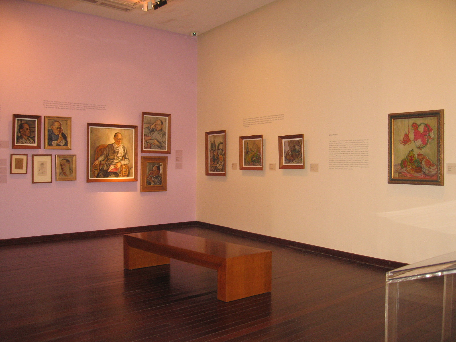 Singapore Art Museum.